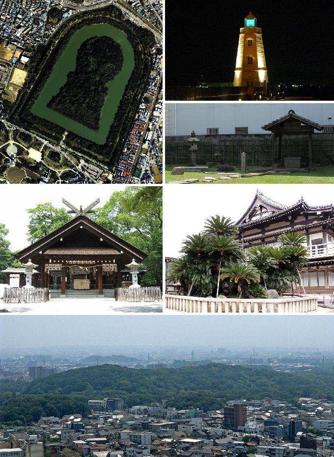 From top left: Daisen Kofun view from sky, Old Sakai Lighthouse, Ruins of Sen no Rikyu's house, Otori-taisha Shrine, Myokoku-ji Temple, Daisen Kofun view from the city hall.